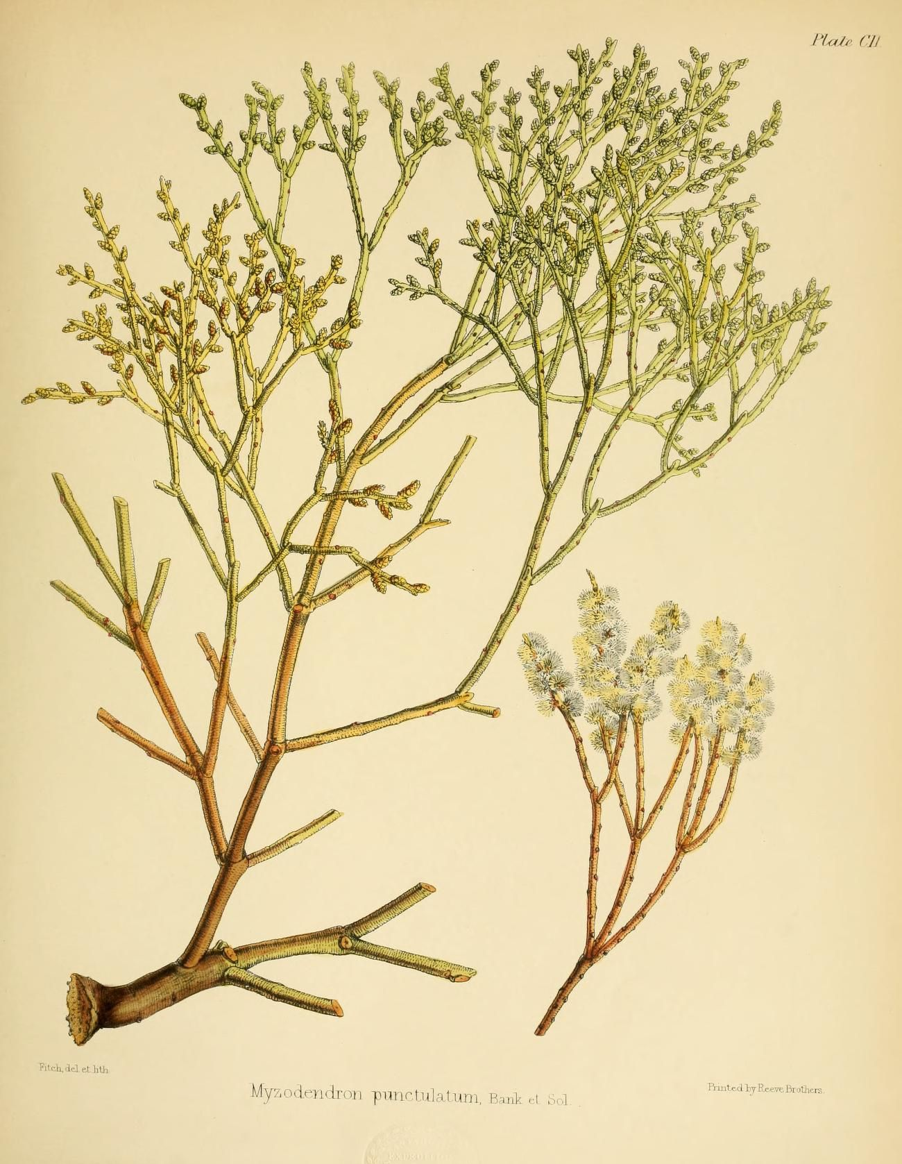 Plate CII of Hooker's Flora Antarctica. "Myzodendron punctulatum Bank et Sol" (correctly Misodendron punctulatum)